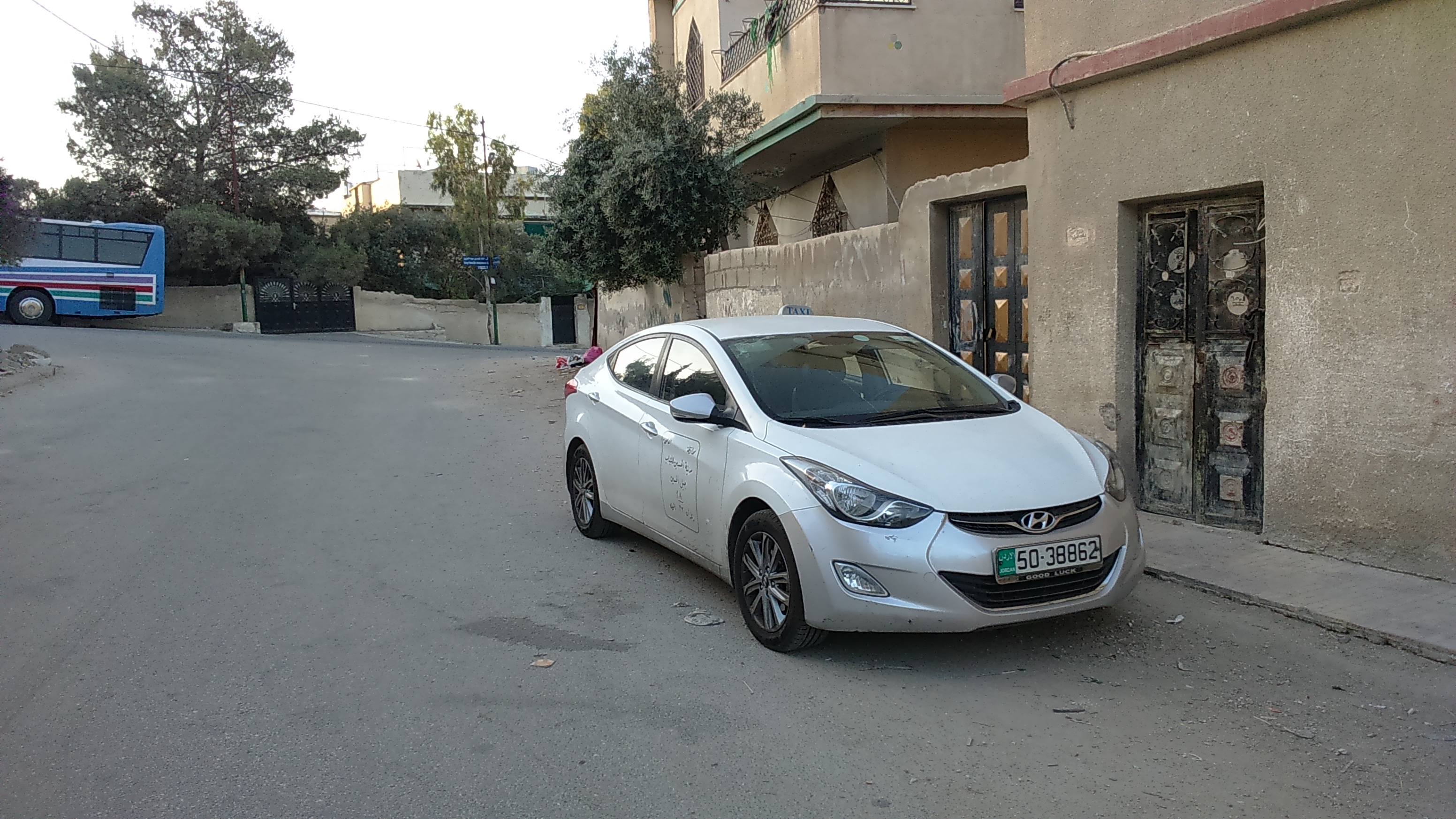 Al Jabal al shamale, Russeifa, Jordan